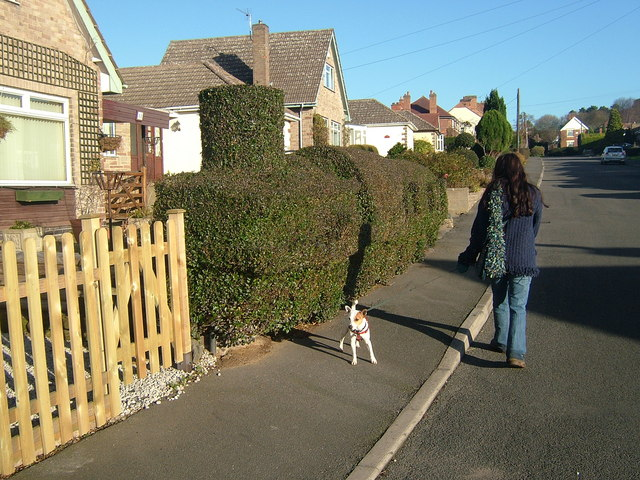 Hedge Training in Blackfordby in N Leicestershire